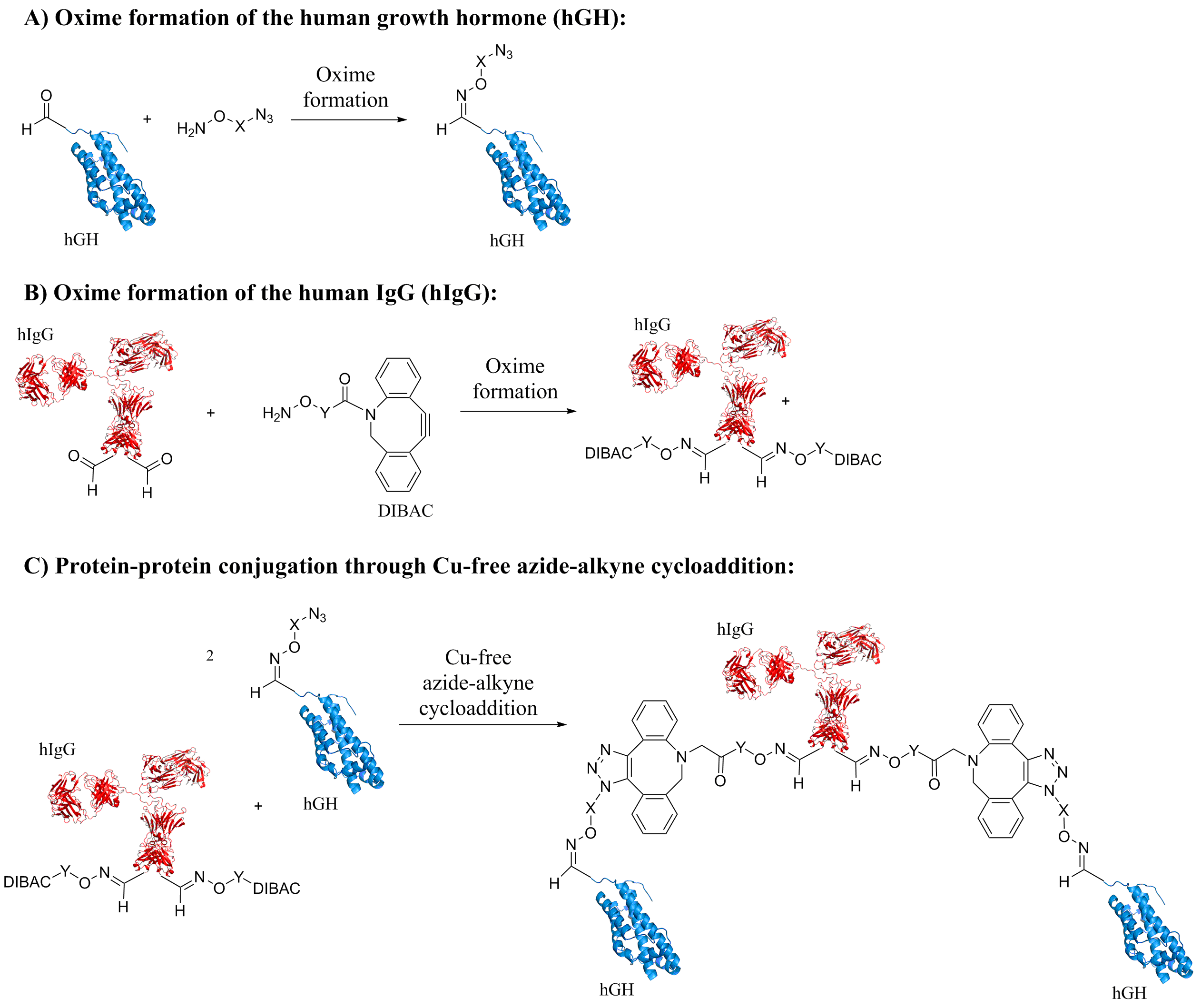 IgG conjugate 1